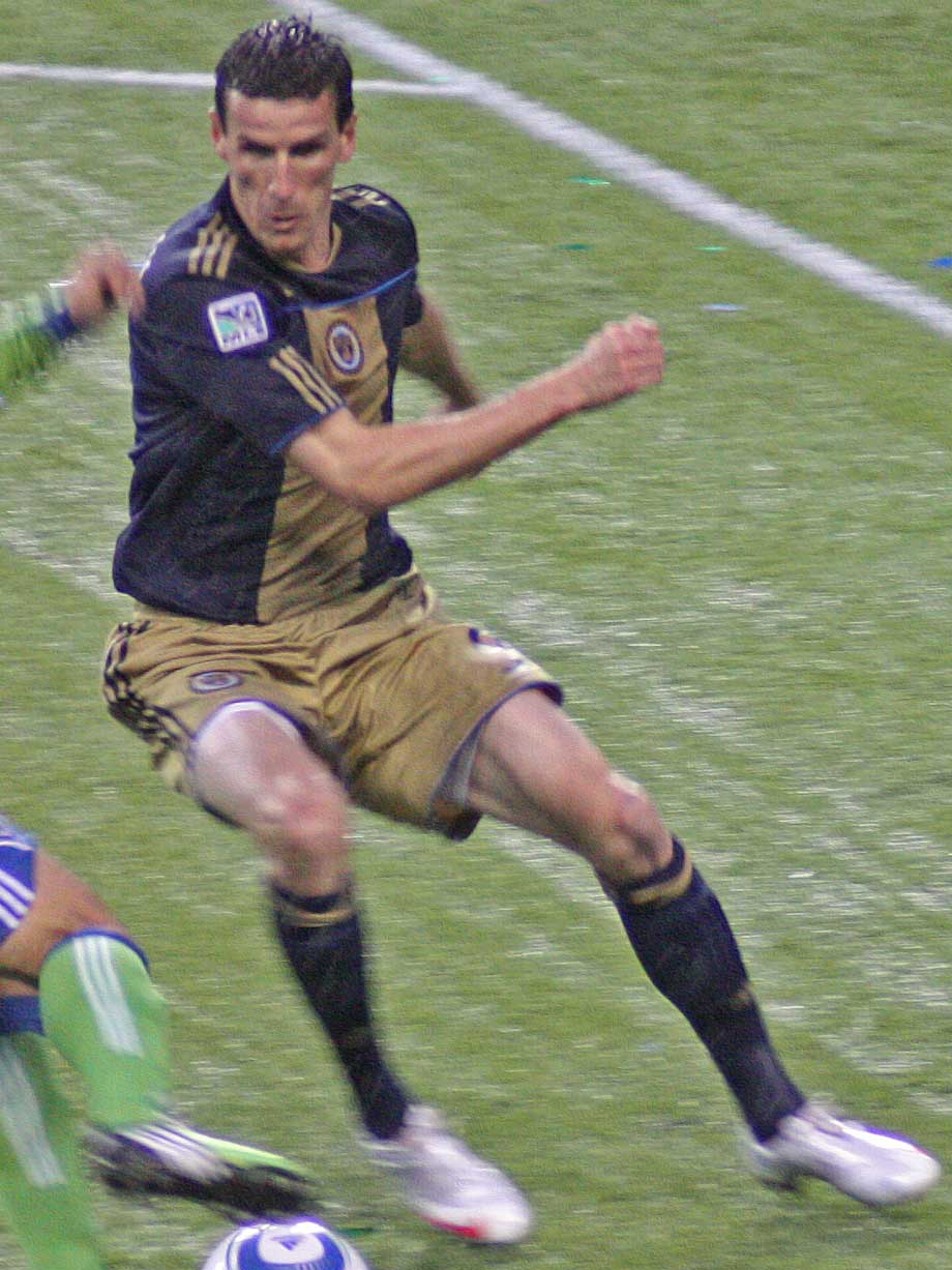 Fredy Montero of Seattle Sounders defended by Sébastien Le Toux of Philadelphia Union.